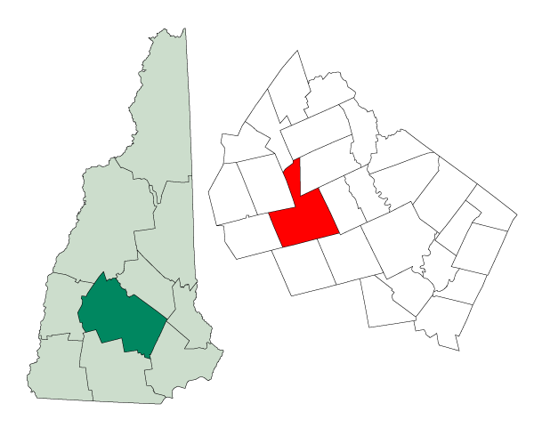 Map of a municipality in Merrimack County, New Hampshire